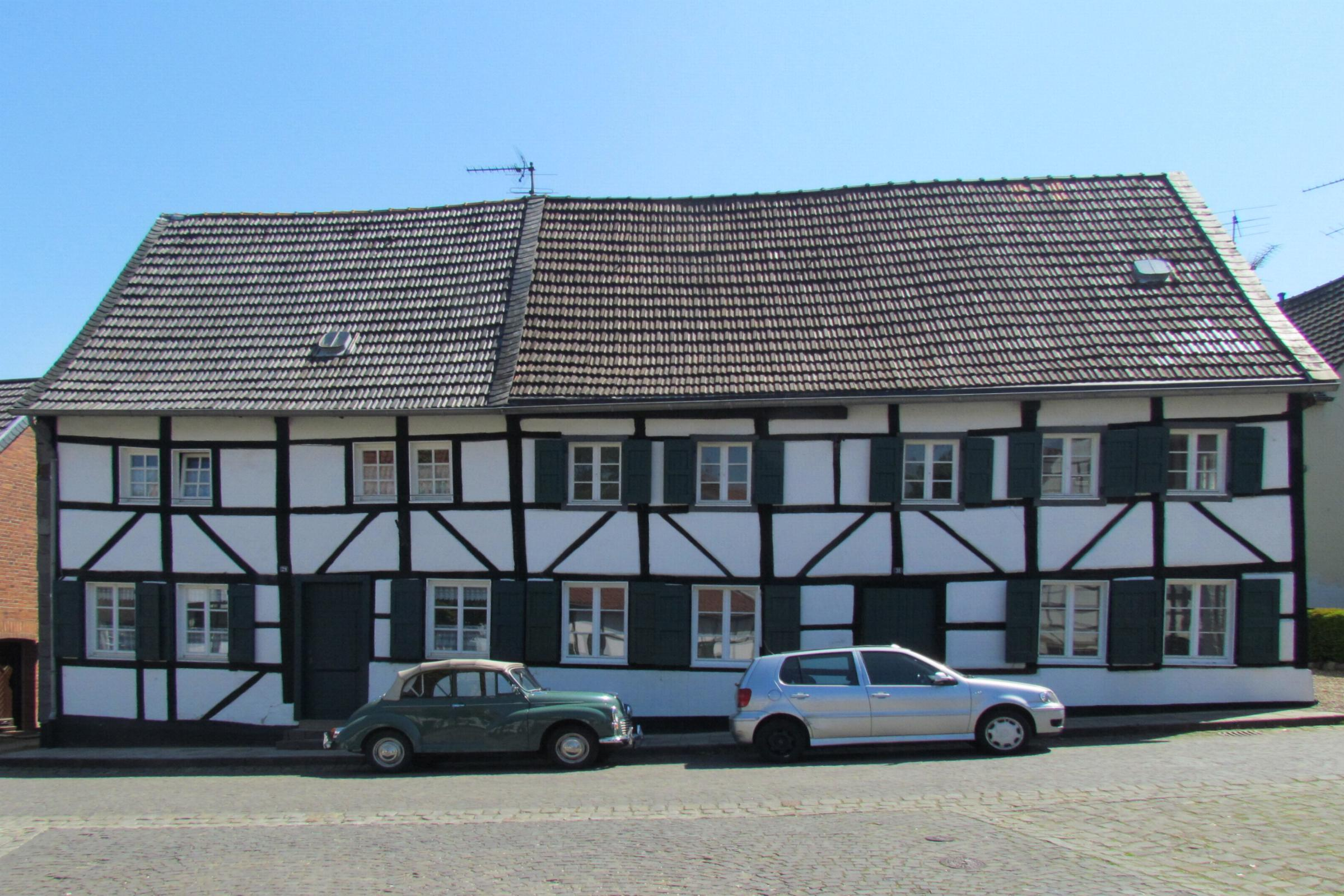 This is a photograph of an architectural monument.It is on the list of cultural monuments of Korschenbroich